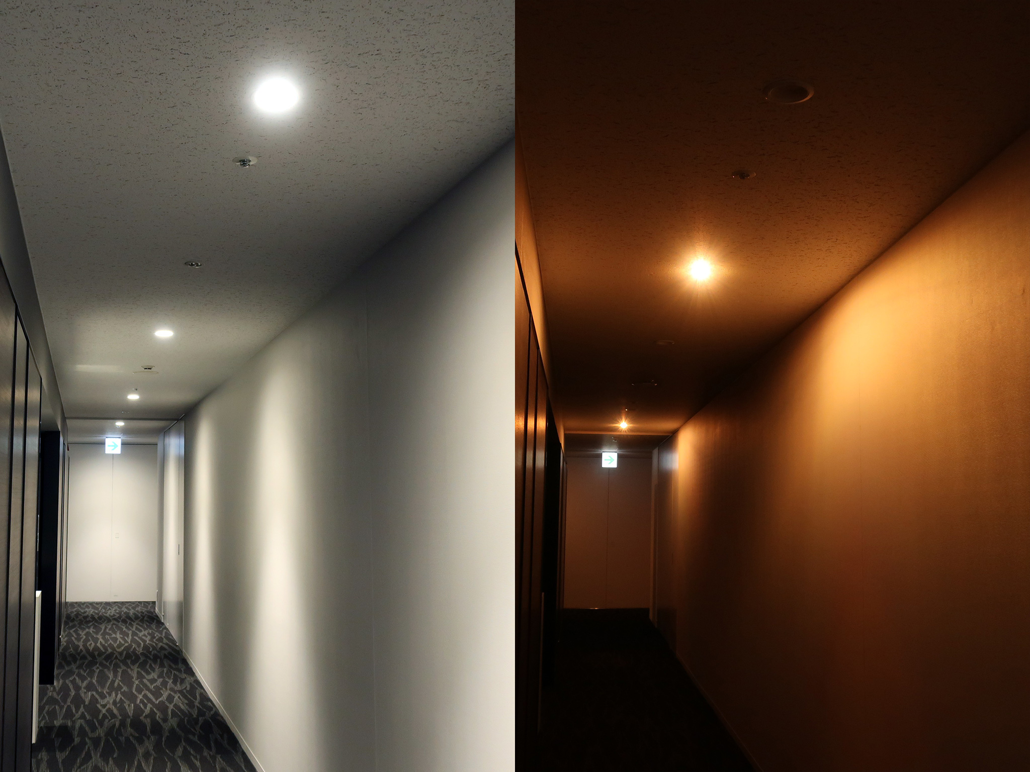 Left image shows the hallway lit by existing lights, and the right shows lit by non-maintained emergency light, at the west office tower in Global Gate in Aichi, Japan. According to the Japanese Building Codes, emergency lighting must provide a level of illumination not less than 1 lx at floor level in 70 °C high temperature environment. It's power supply shall be provided not less than 30 minutes by batteries or generators.